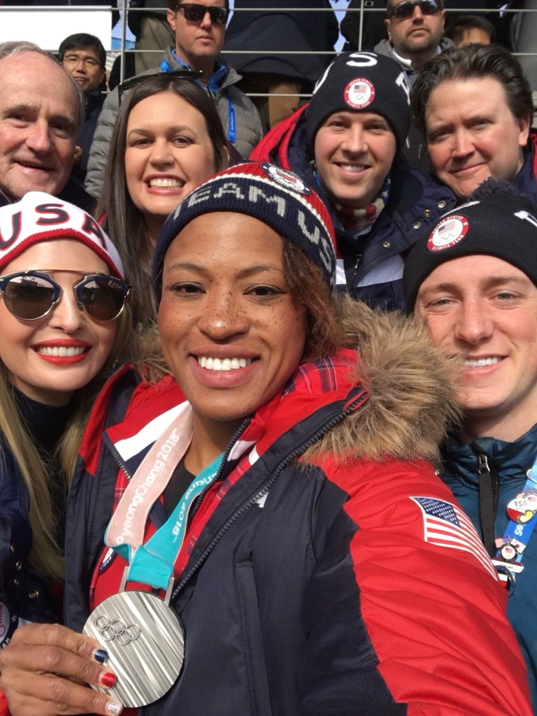 "Had a blast with @IvankaTrump @lagibbs84 @eamslider24 @taylormorris91 @MMortensenUSA @SenatorRisch and Shauna Rohbock cheering on the #TeamUSA Men’s bobsled team. Truly amazing athletes!"